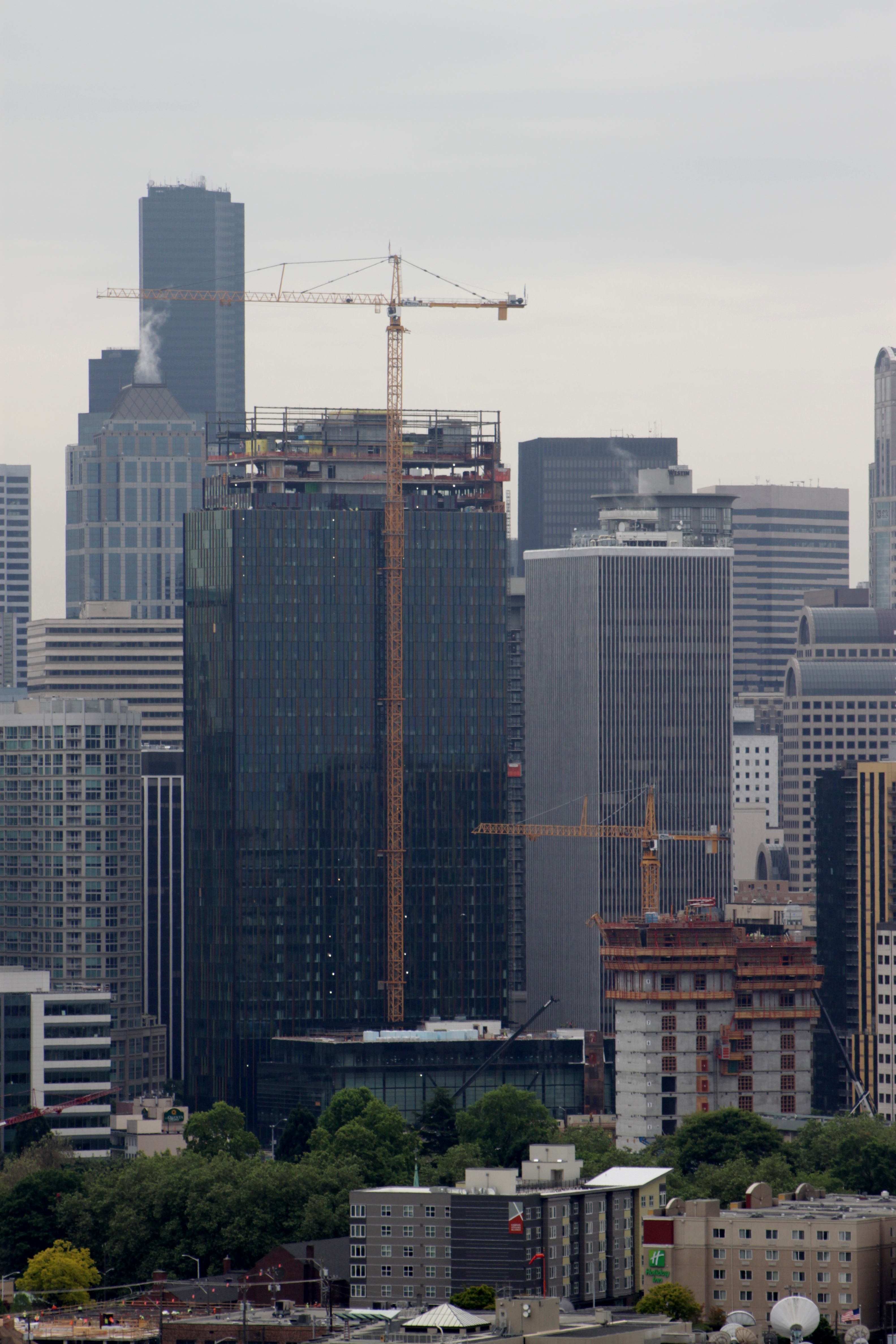 Construction of the Amazon headquarters complex in Seattle, Washington, seen from Bhy Kracke Park.